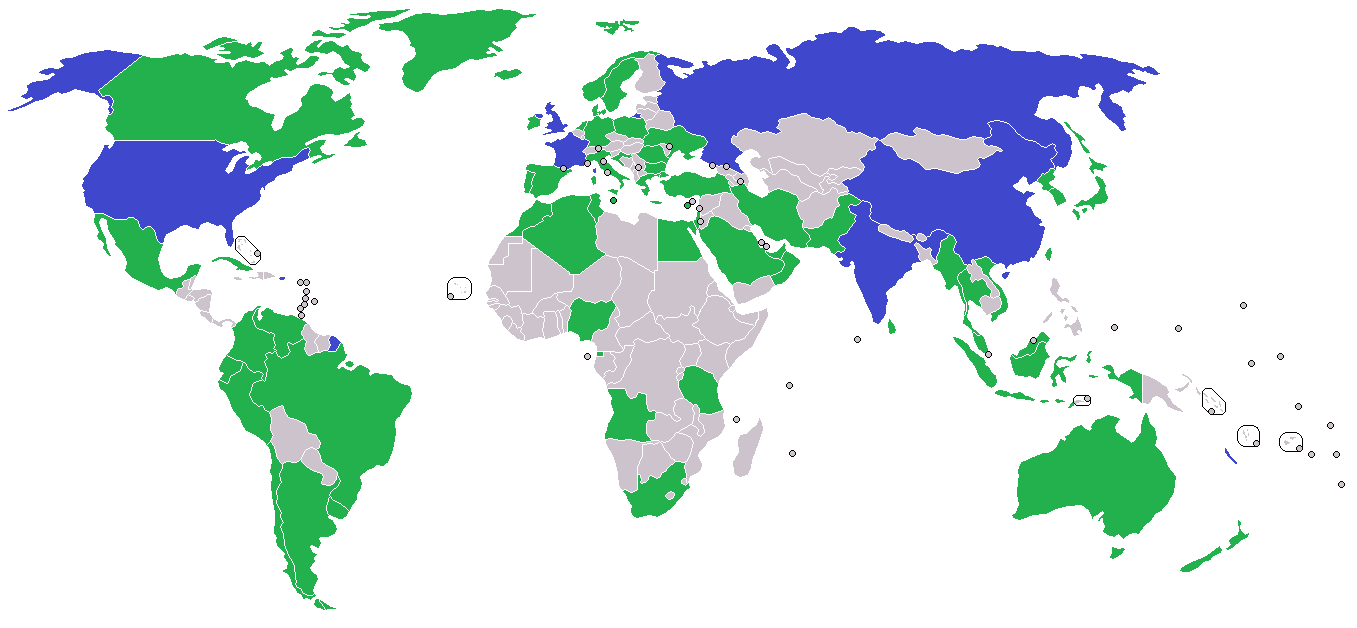 green and blue water navies